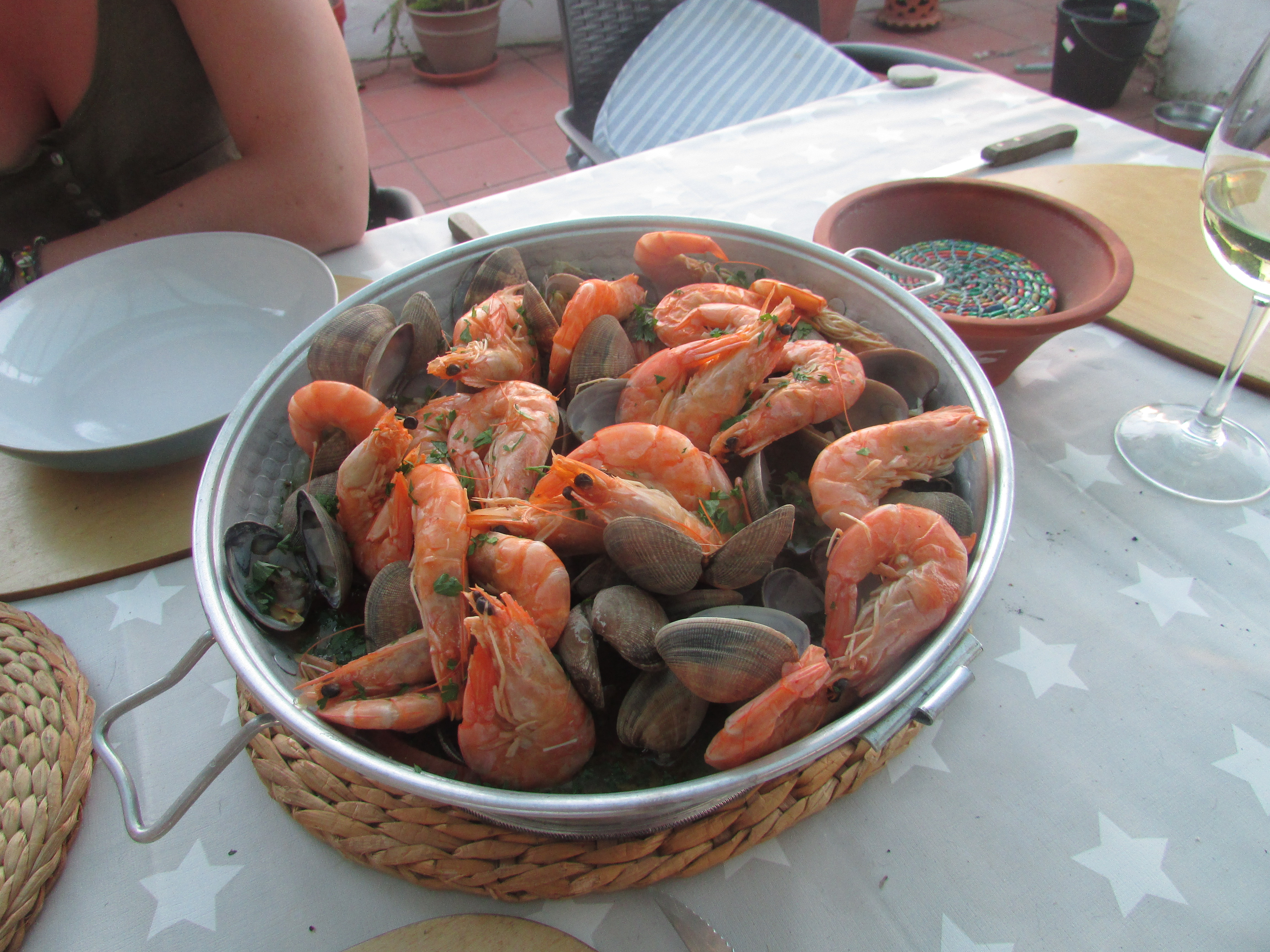 A pork, prawn and clams cataplana dish in Albufeira, Algarve, Portugal.